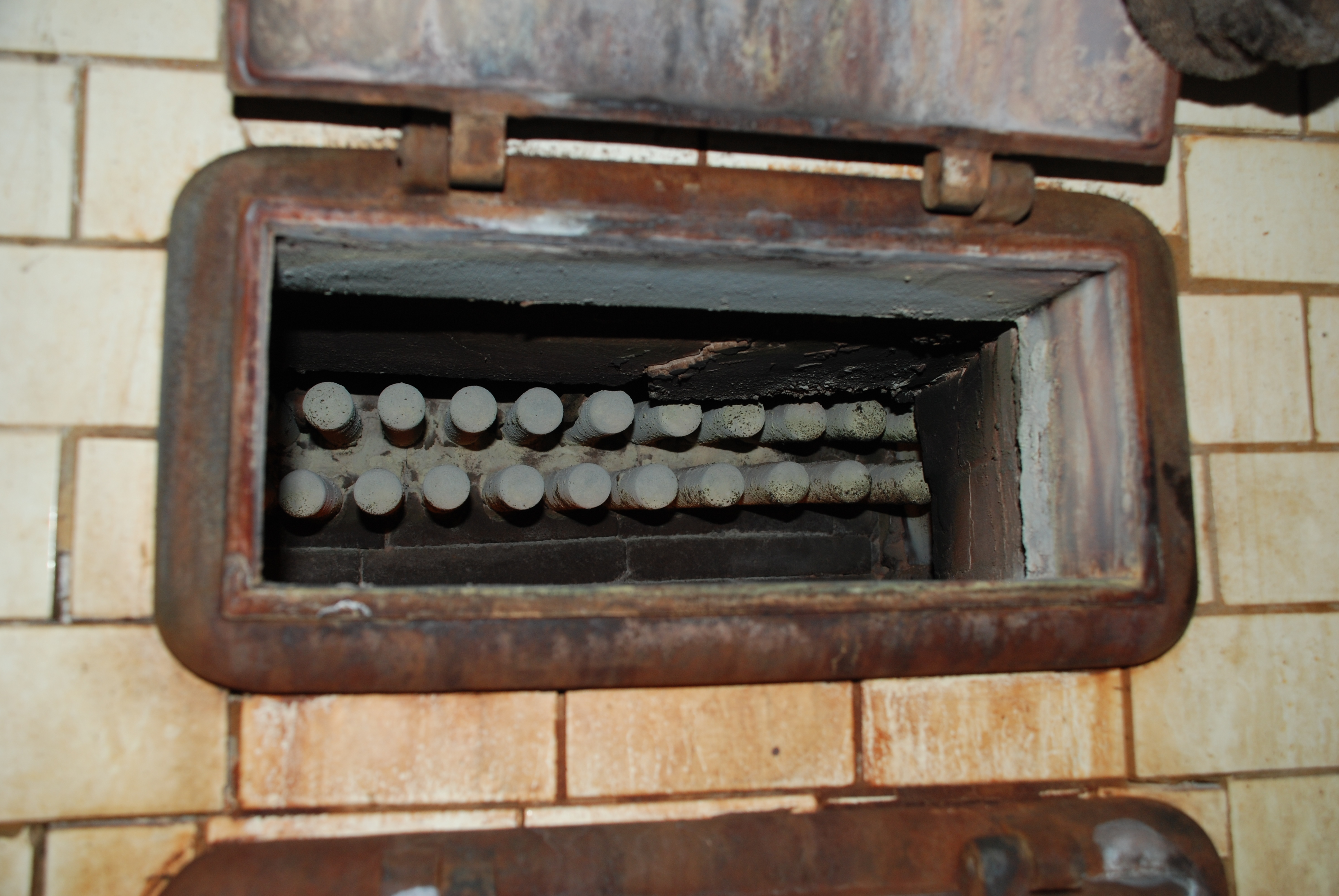 Baking oven, built 1959 in a bakery in Schloss Ricklingen, Germany.